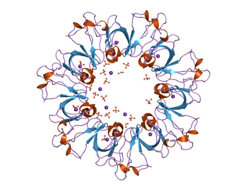 Cartoon representation of the molecular structure of protein registered with 1g31 code.